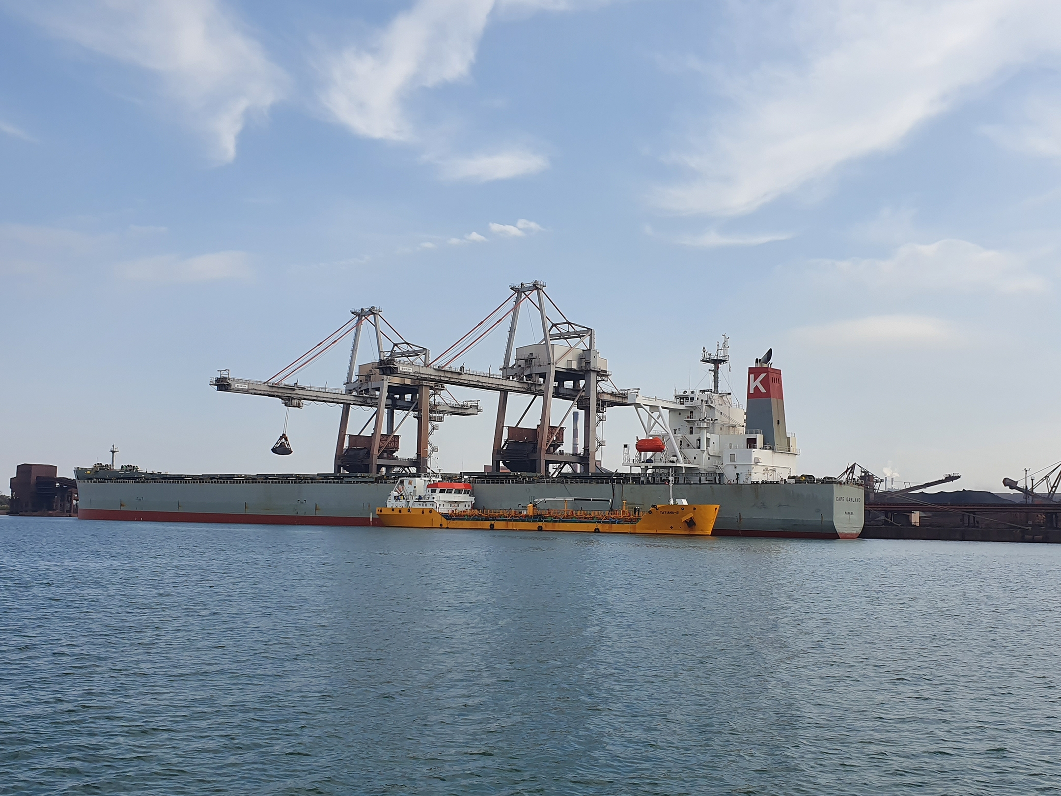 The Cape Garland (bulk carrier and ore carrier)